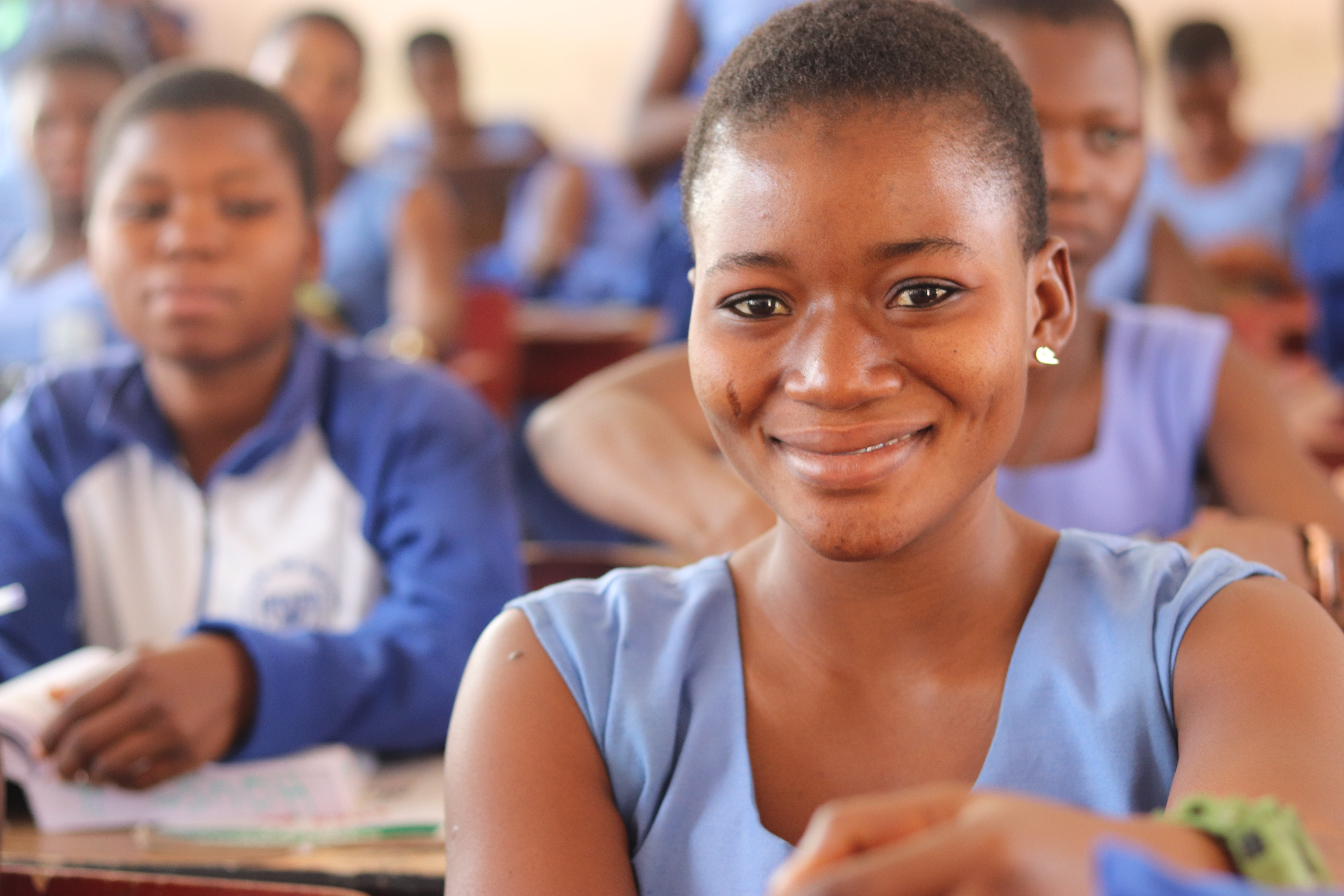 Senior High education in Africa